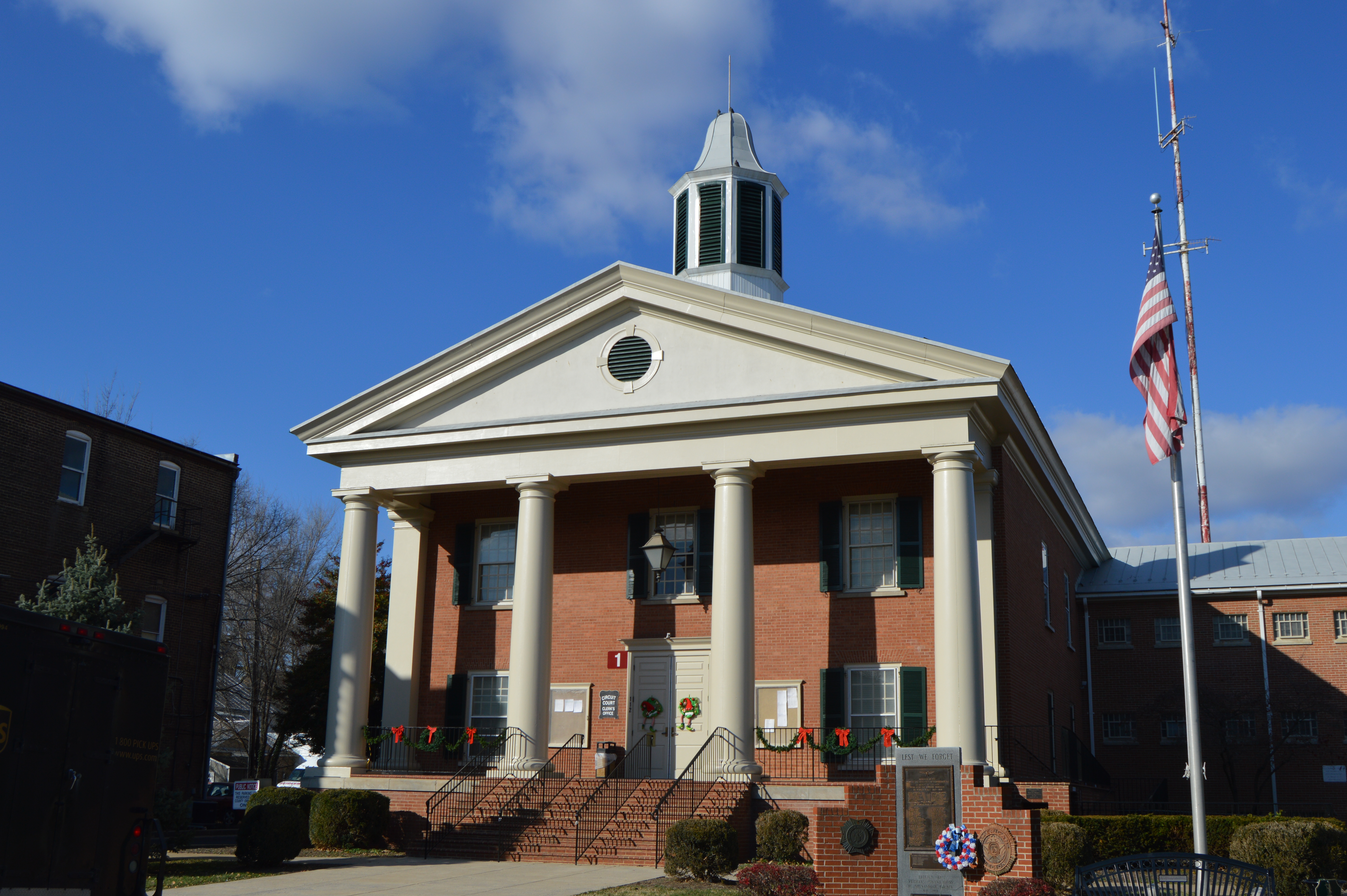 Front and northeastern side of the current Shenandoah County Courthouse, located at 112 S. Main Street (U.S. Route 11) in Woodstock, Virginia, United States.